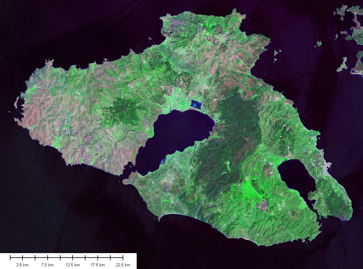 Landsat image of the island Lesbos (2000)